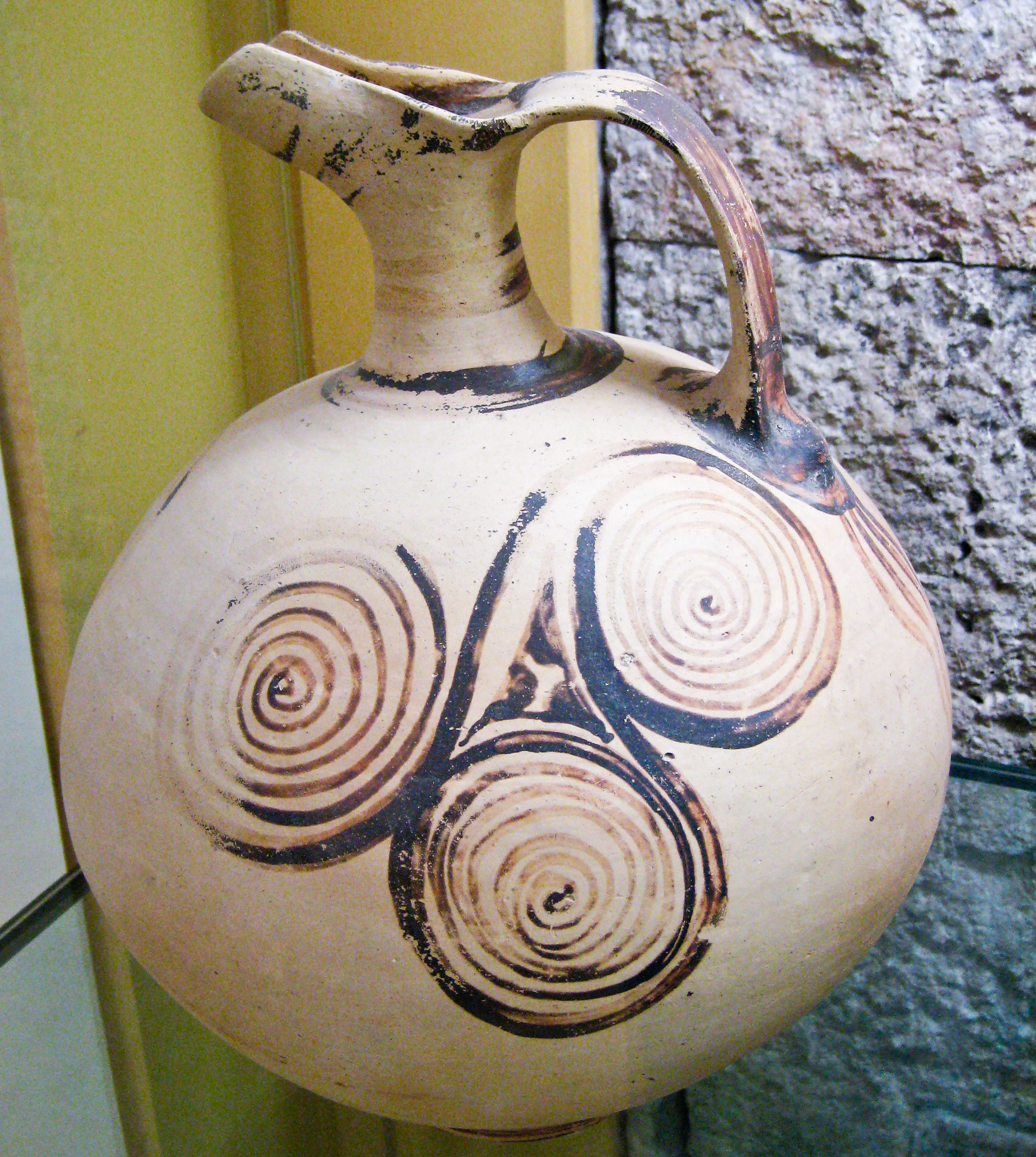 Beaked jug (ewer) decorated with triple spirals. Late Helladic III, 1400-1350 BC. Ancient Agora Museum in Athens.